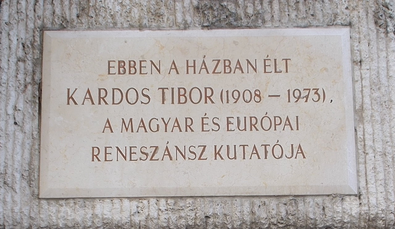 Apartment building. Plaque.- Stollár Béla Street, Lipótváros neighbourhood, Belváros-Lipótváros district, Budapest, Hungary.